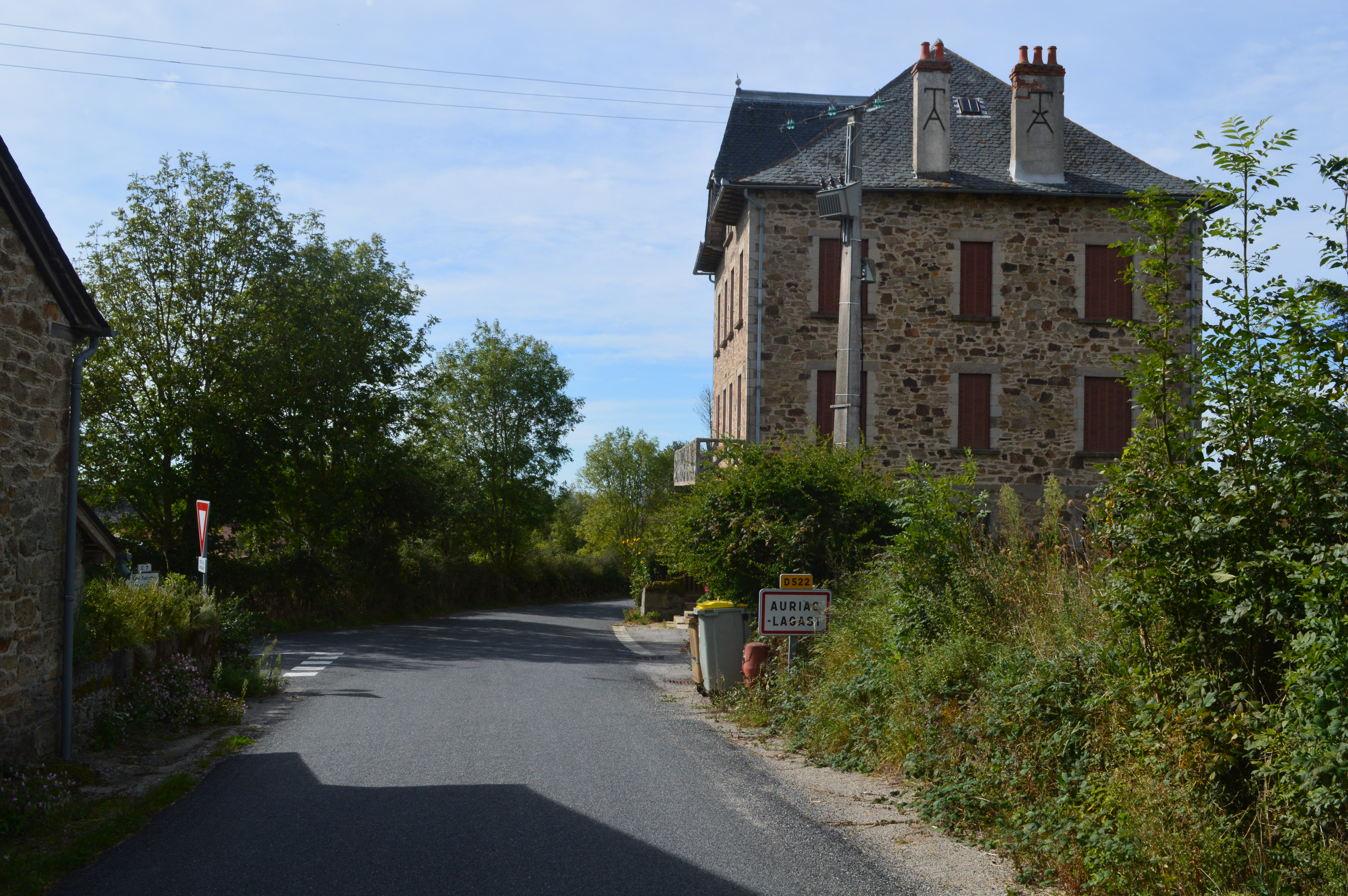 The entry to Auriac-Lagast